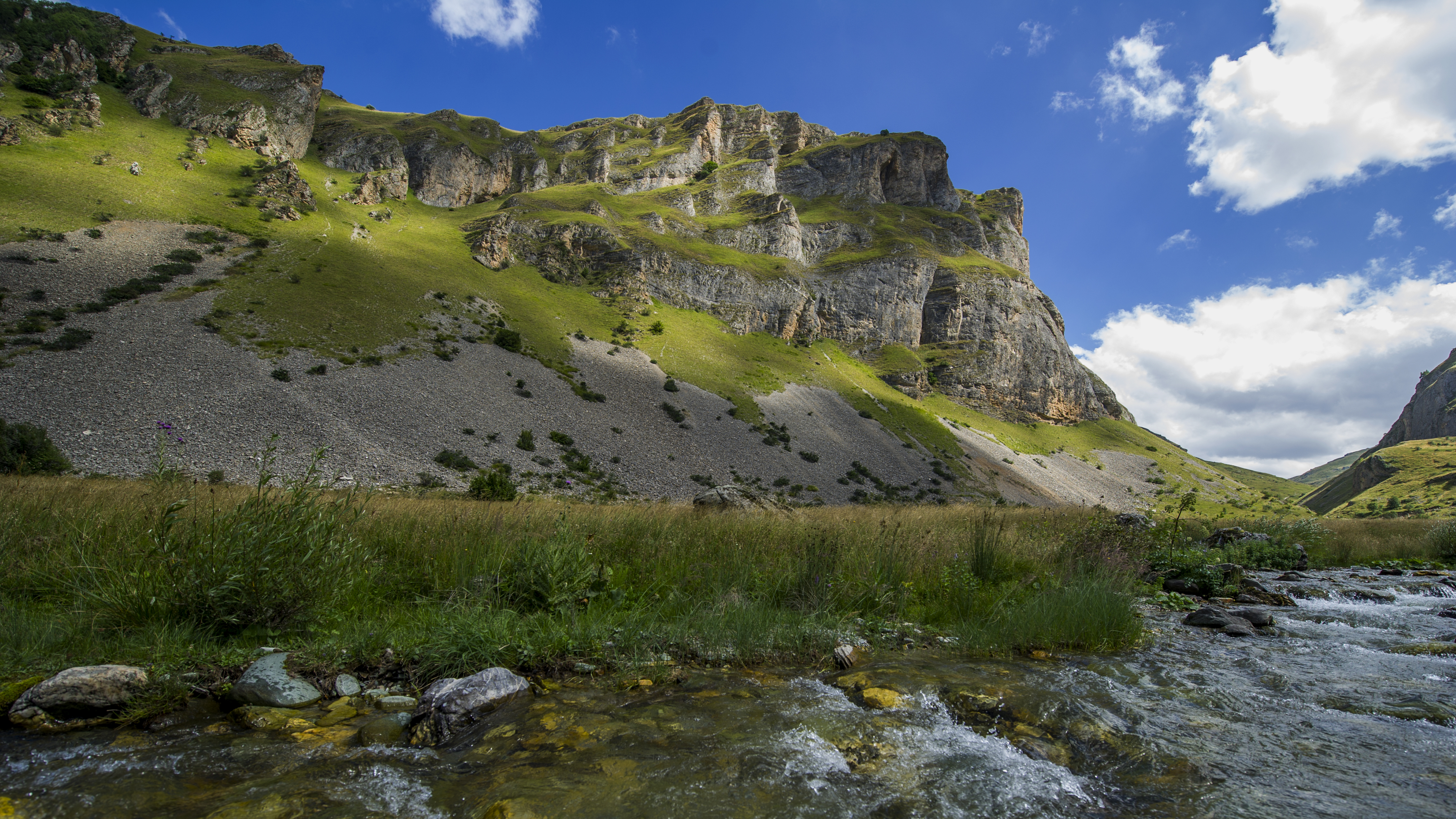 Sharr National Park, Prizren Suharekë Kaçanik Shtërpcë, DragashShqip: Parku Kombëtar Sharri, Prizren Suharekë Kaçanik Shtërpcë, Dragash LL.